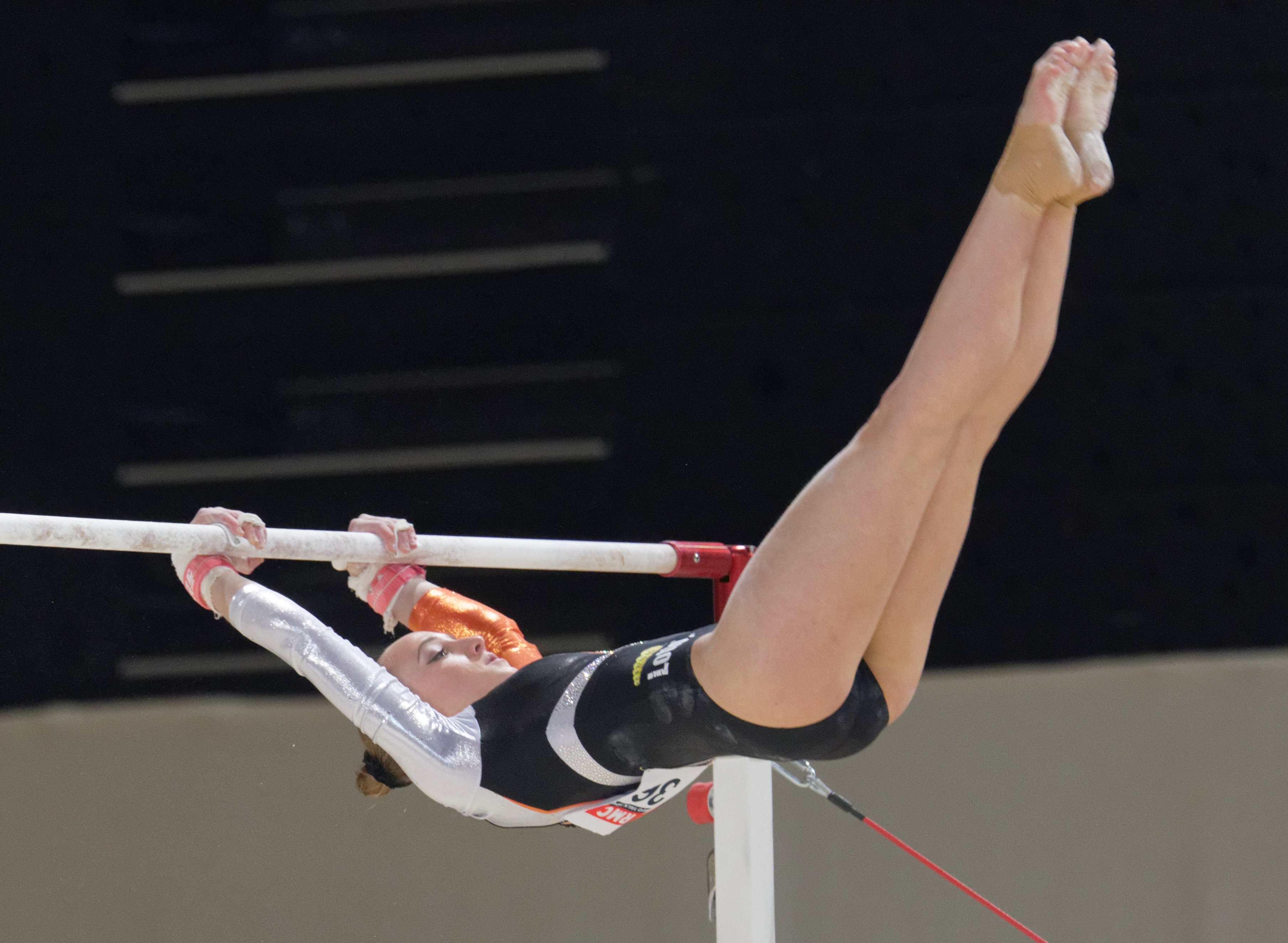 Sanne Wevers competing on uneven bars at the 2015 European Artistic Gymnastics Championships